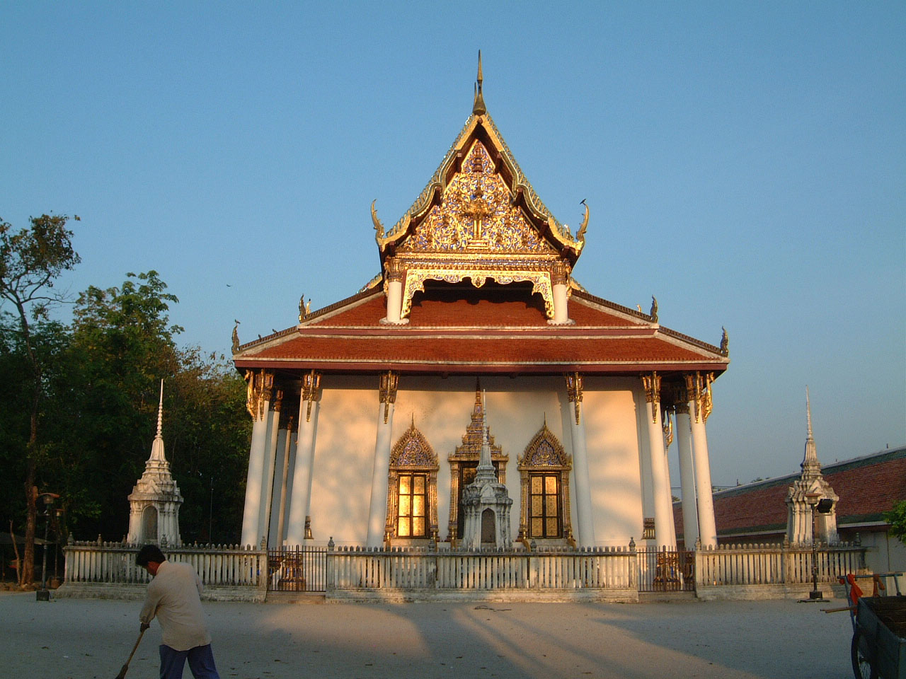 Wat Phra Baromathat Nakhon Srithammarat